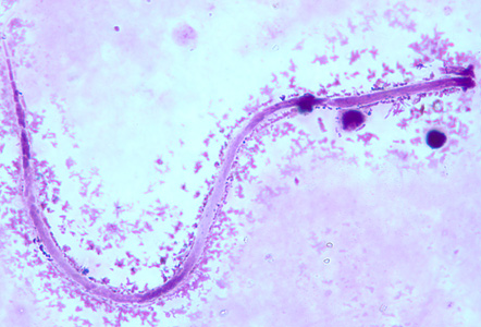 Microfilariae of M. ozzardi in thick blood smears, stained with Giemsa.